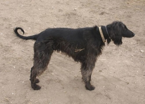 Taigan in Issyk-Kul, Kyrgyzstan